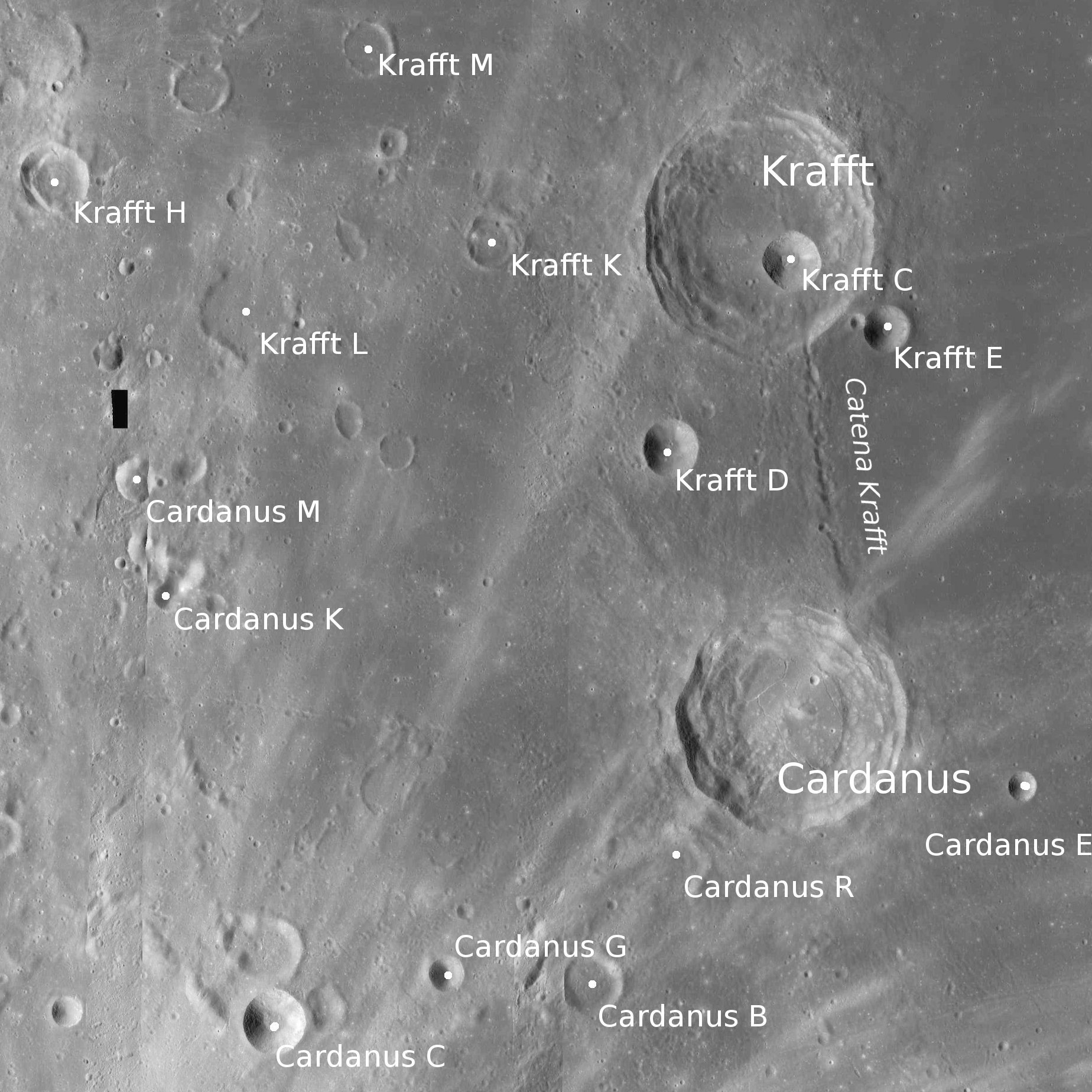 Craters Krafft and Cardanus (detail of LRO - WAC global moon mosaic; Mercator projection)